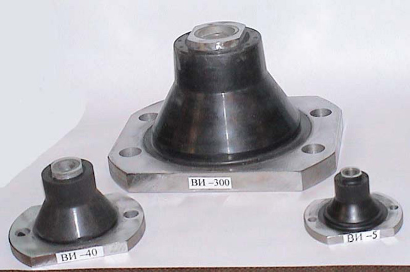 Boris Andreevich Shapiro, 1994 and 2006. Patent of Russia 2079419 and 2324086.